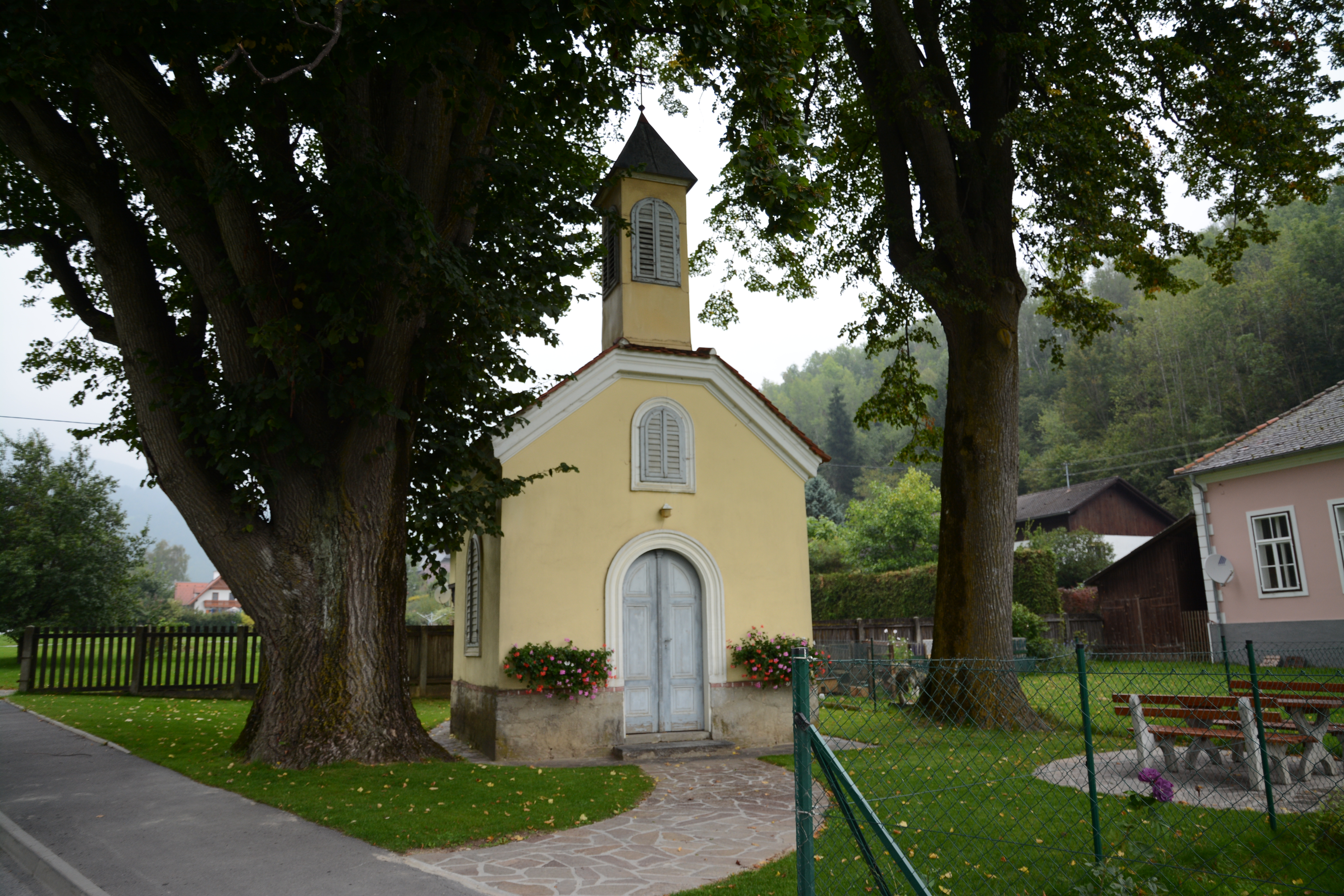 Chapel Ponigl